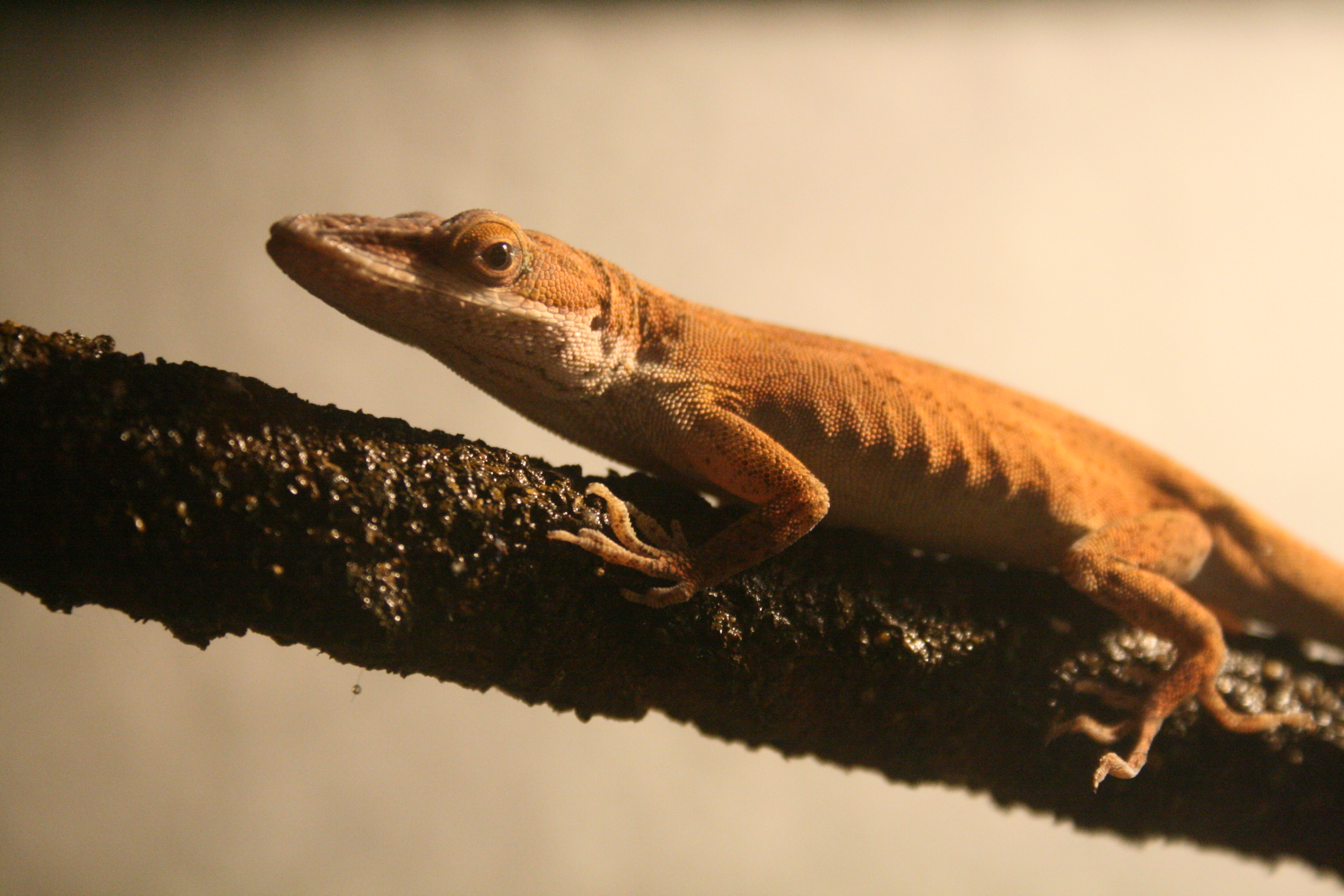 Captive male carolina anole (Anolis carolinensis) resting on an artificial vine inside a terrarium.